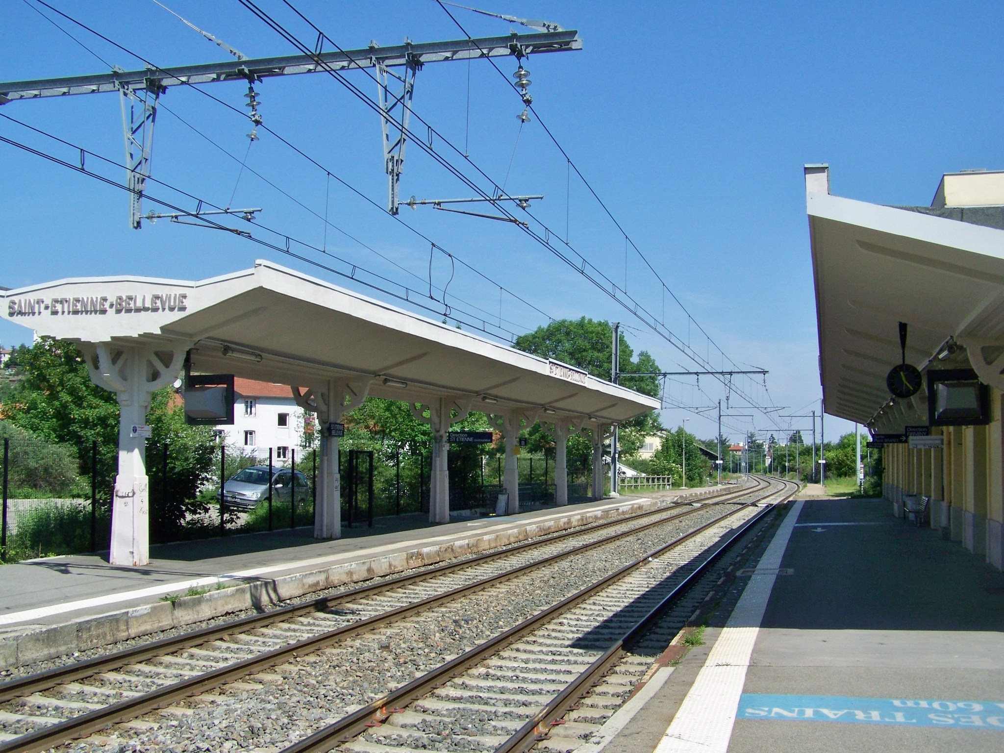 Sight of the platforms and tracks of Saint-Étienne-Bellevue railway station, in Saint-Étienne, Loire, France.